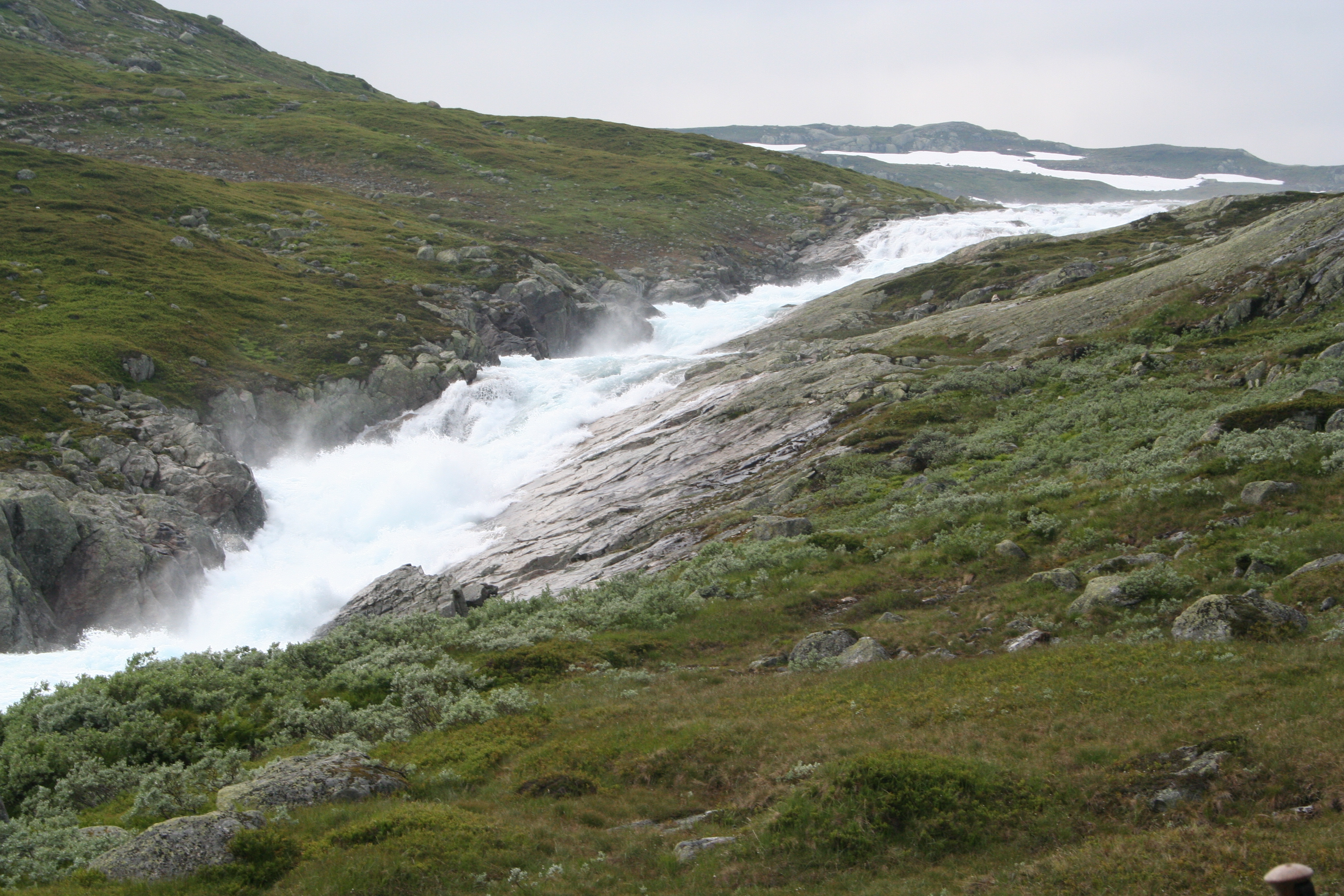 River Bora in Vinje, Telemark, Norway, in flood summer 2007